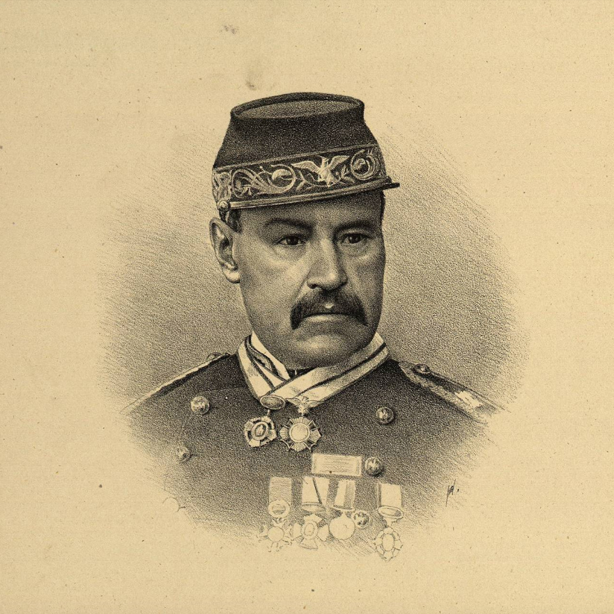 General Gaspar Sánchez Ochoa, lithography from the book The prominent men of Mexico, 1888.